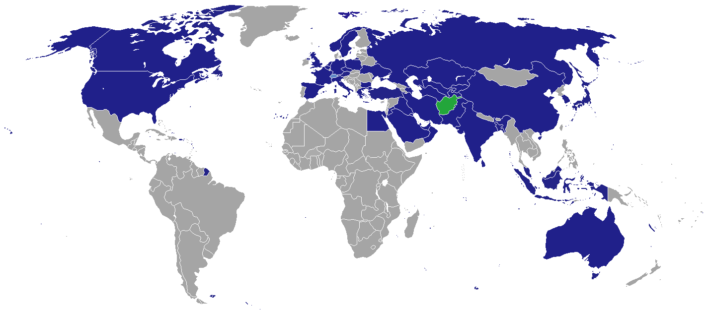 Map of diplomatic missions of Afghanistan